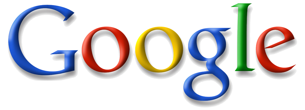 Google Logo. This is the old version of the Google logo, used before May 2010 on the Google homepage. The new google image is at File:googlelogo.png.